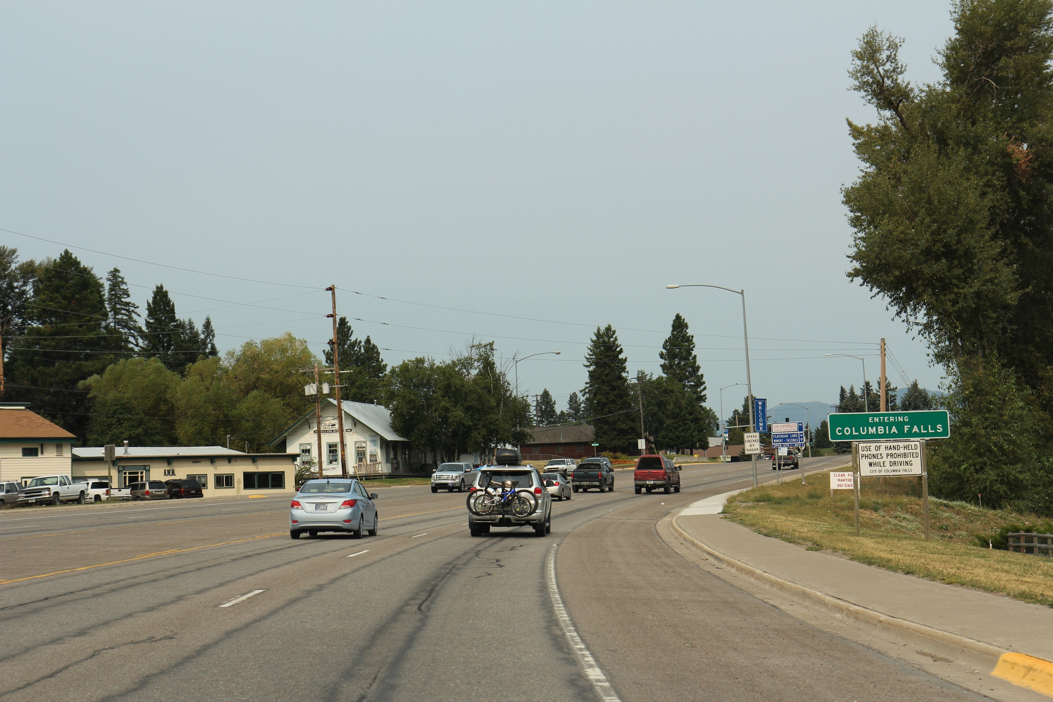 The sign for Columbia Falls, Montana on U.S. Route 2.